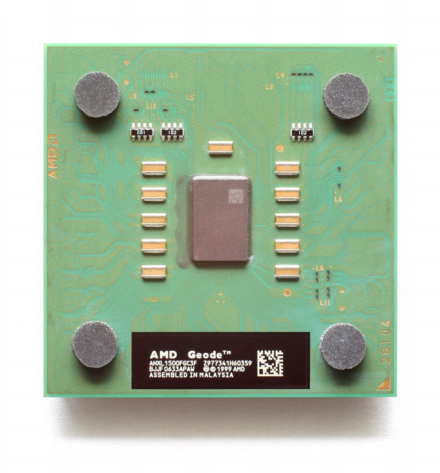 CPU AMD Geode NX 1500 Thoroughbred